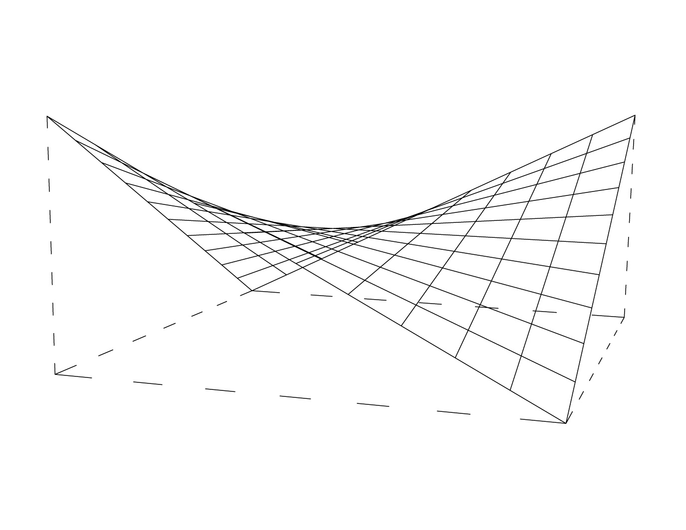 Hyperbolic parabaloid, the shape of a saddle roof.